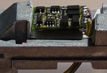 N scale chassis during a DCC decoder installation